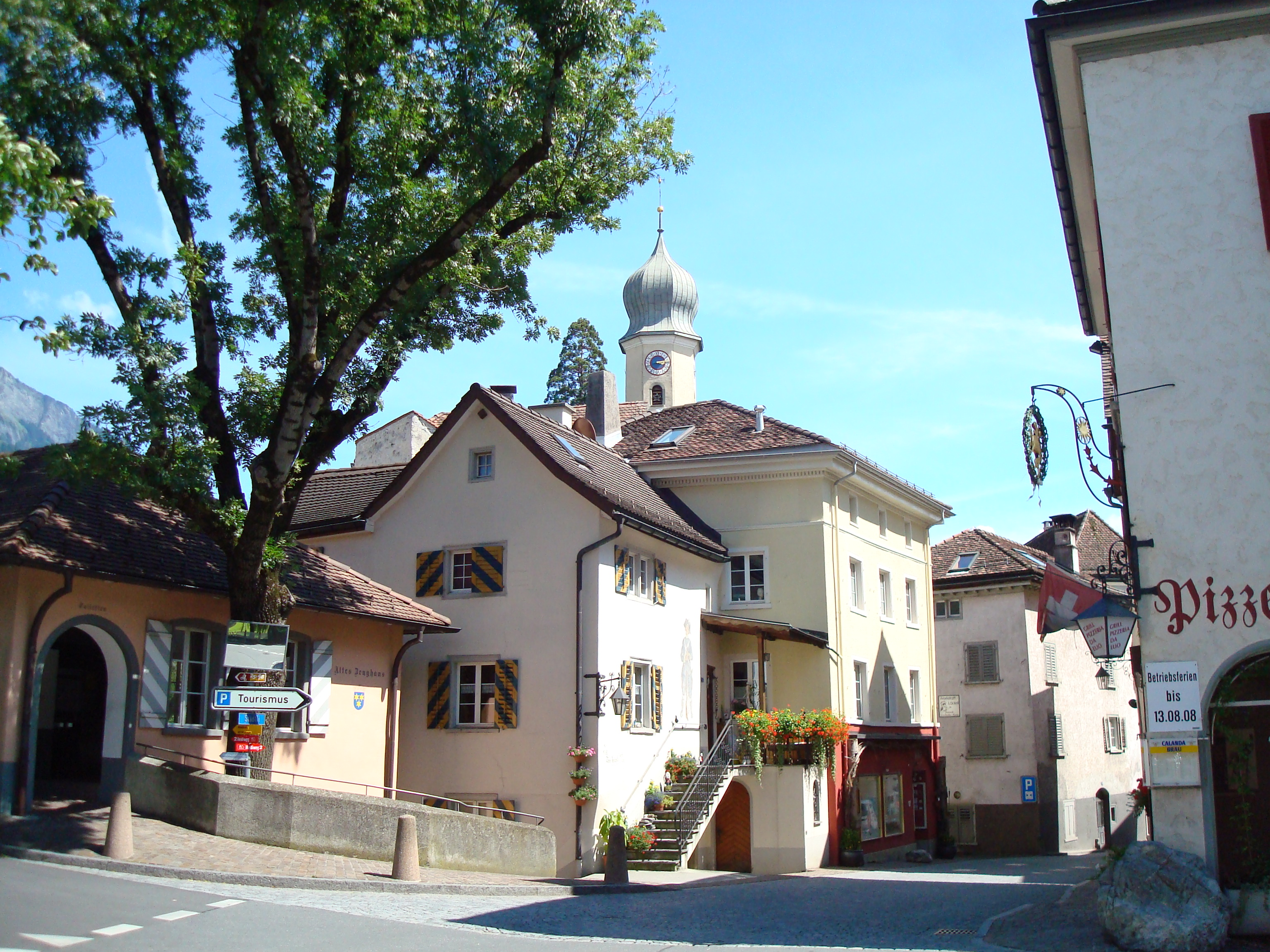 Maienfeld, Kanton Graubünden, Switzerland